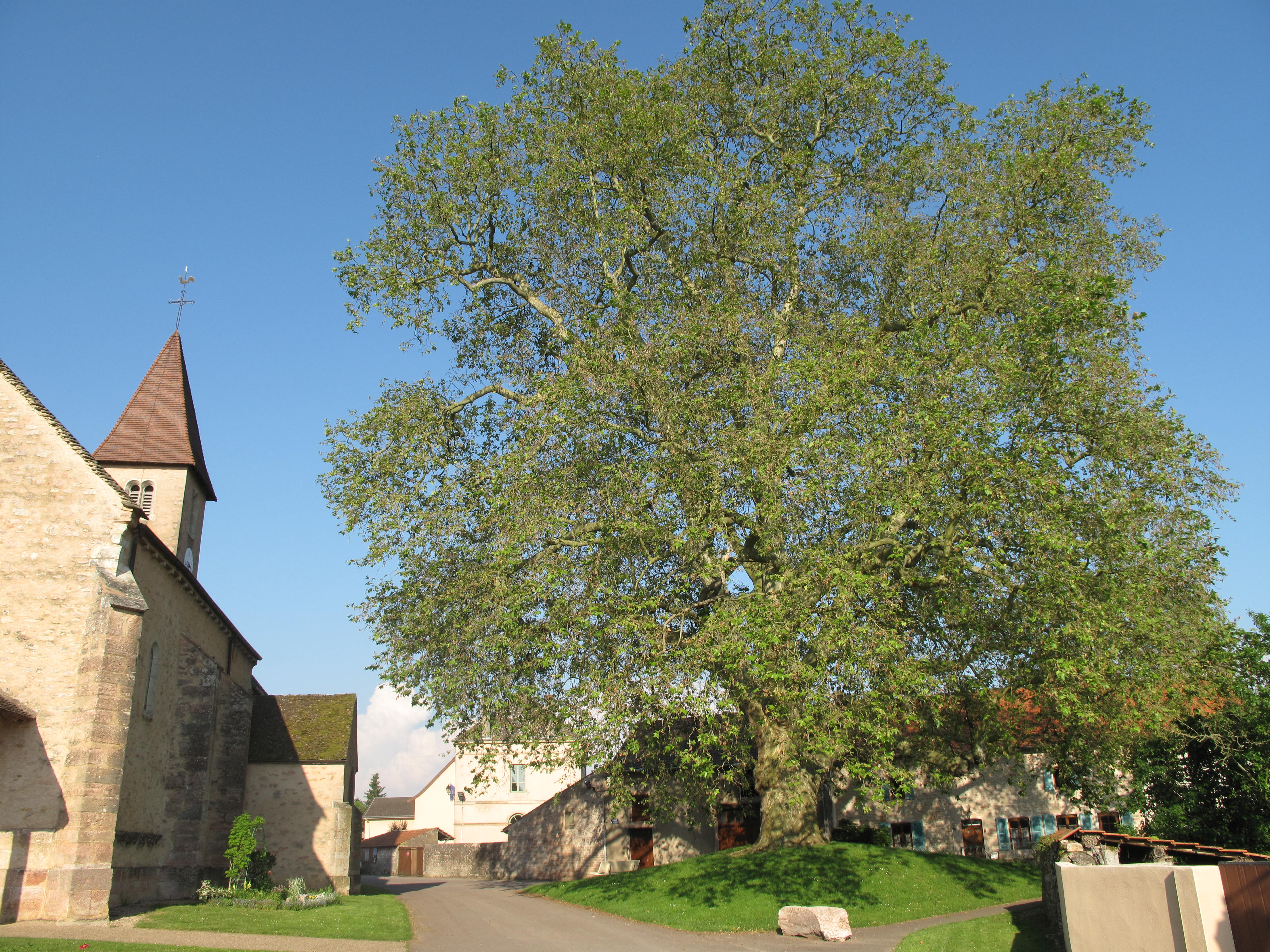 The church and the platanus in Préty (Saône-et-Loire, France).